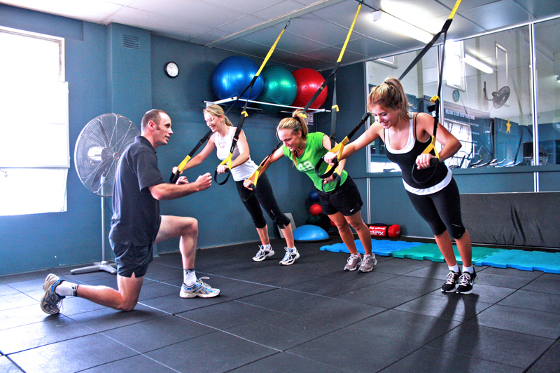 Group Personal Training at a Gym